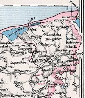 Detail from a map of Pomerania.